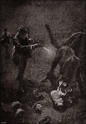 Illustration of the Sherlock Holmes adventure The Hound of the Baskervilles.